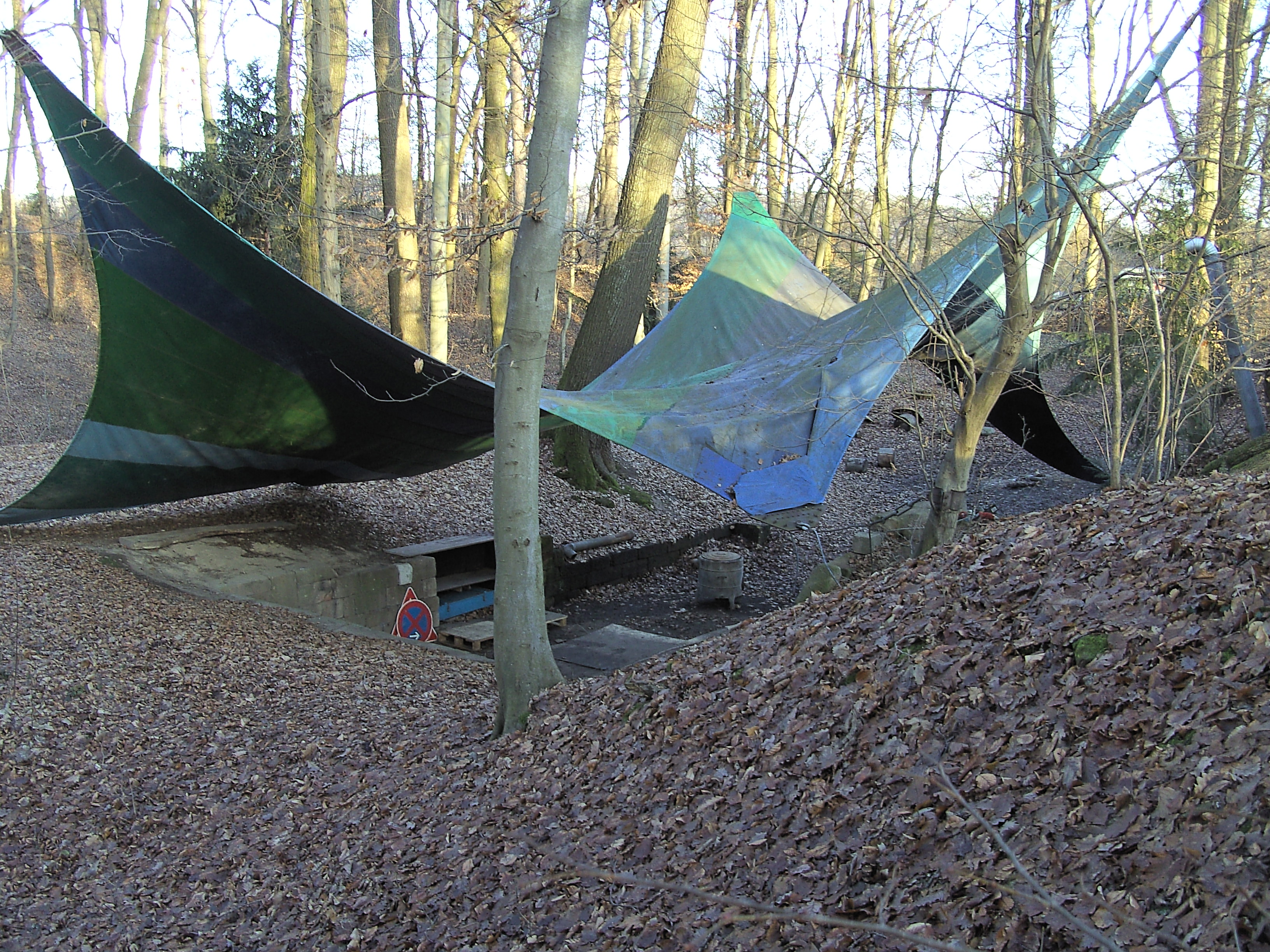 Place between a little forest, optimal for initiation ceremonies Germany, Esslingen am Neckar, district Search